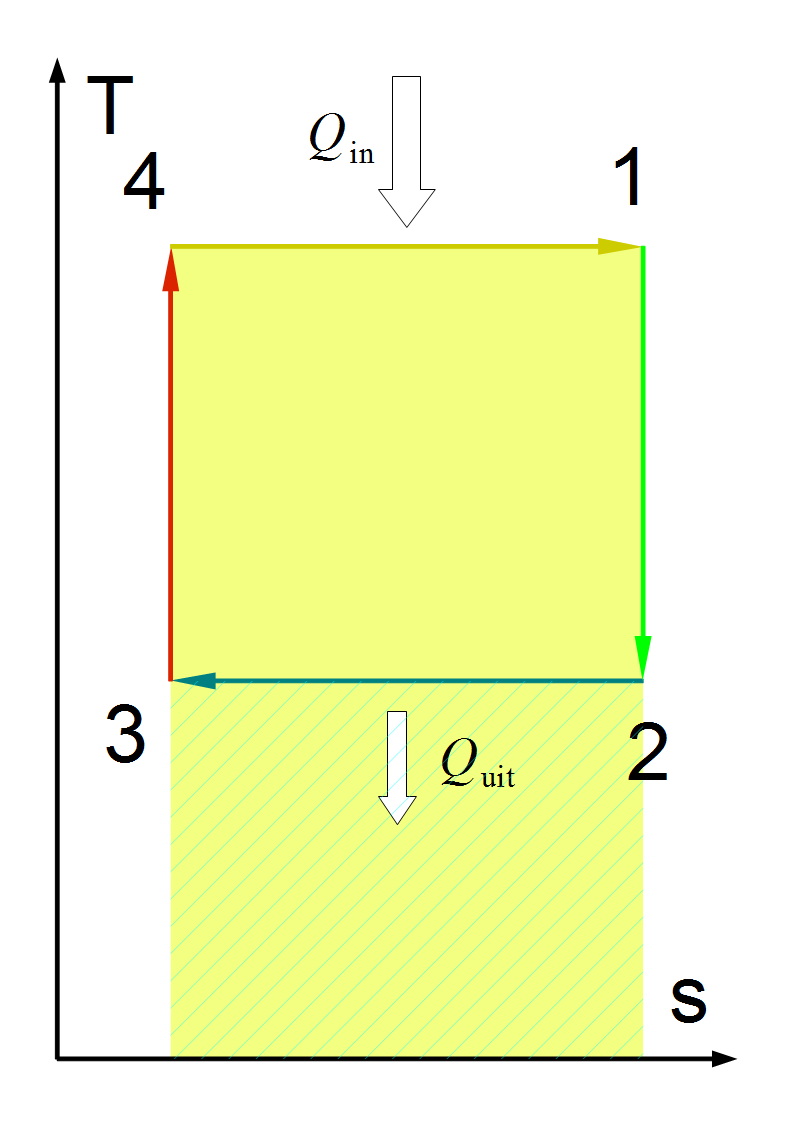 Carnot cycle in Ts-diagram